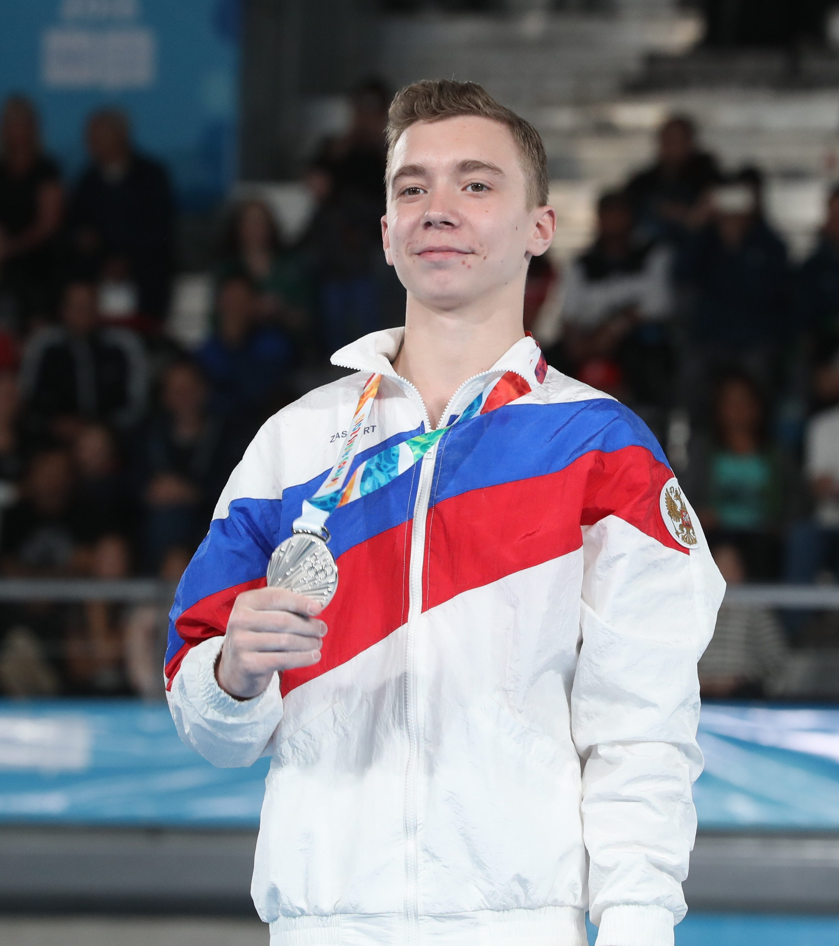 Victory ceremony of the boys' artistic gymnastics at the 2018 Summer Youth Olympics in Buenos Aires on 11 October 2018. Depicted: Sergei Naidin.